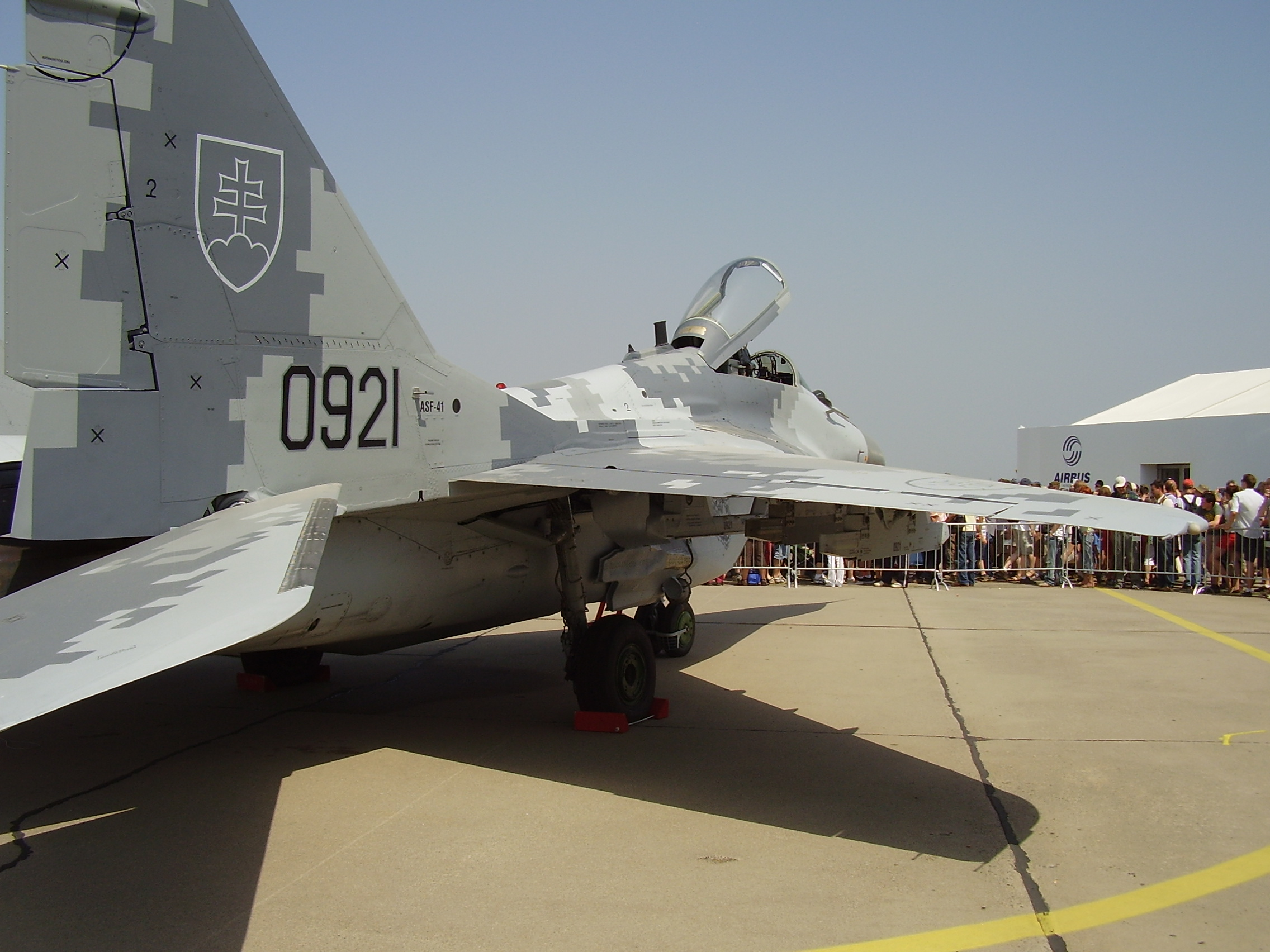 A Slovakian Mikoyan-Gurevich MiG-29 at the ILA 2008.